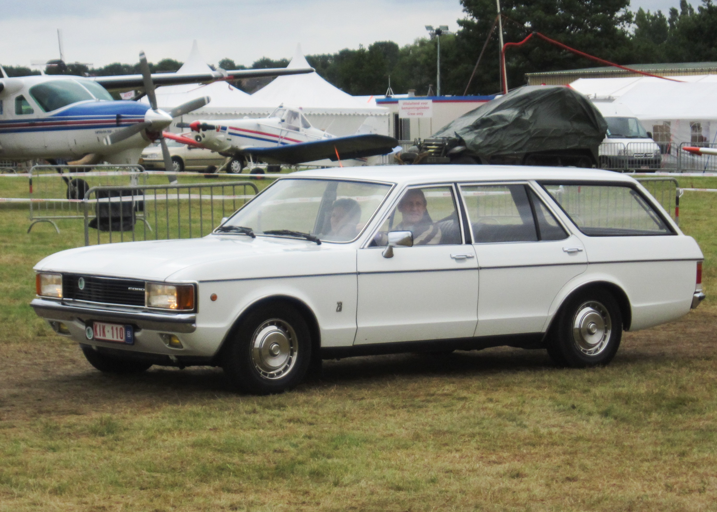 Ford Granada Turnier (estate/kombi/station wagon) 2.3 (ca 1975)